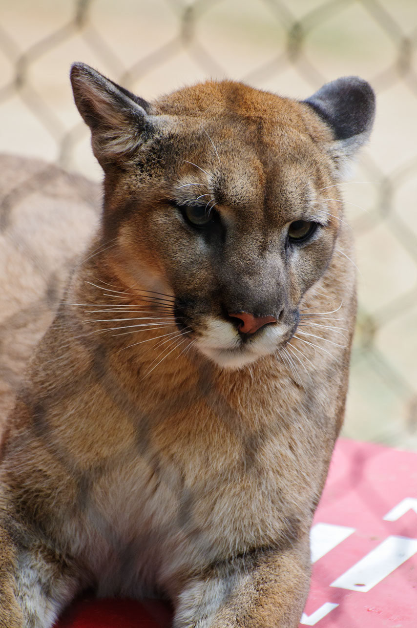 Shasta VI resting on a box containing University of Houston class rings at the Houston Zoo